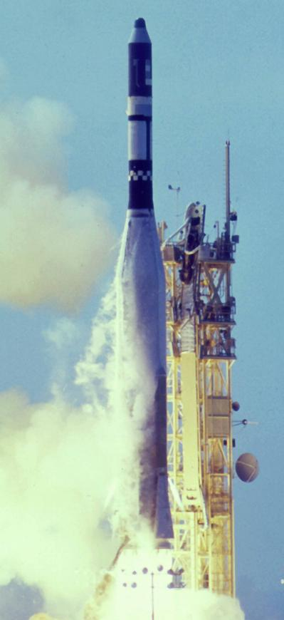 Launch of Atlas LV-3A Agena D rocket with spy satellite KH-7 06 on board (Mar. 11 1964)